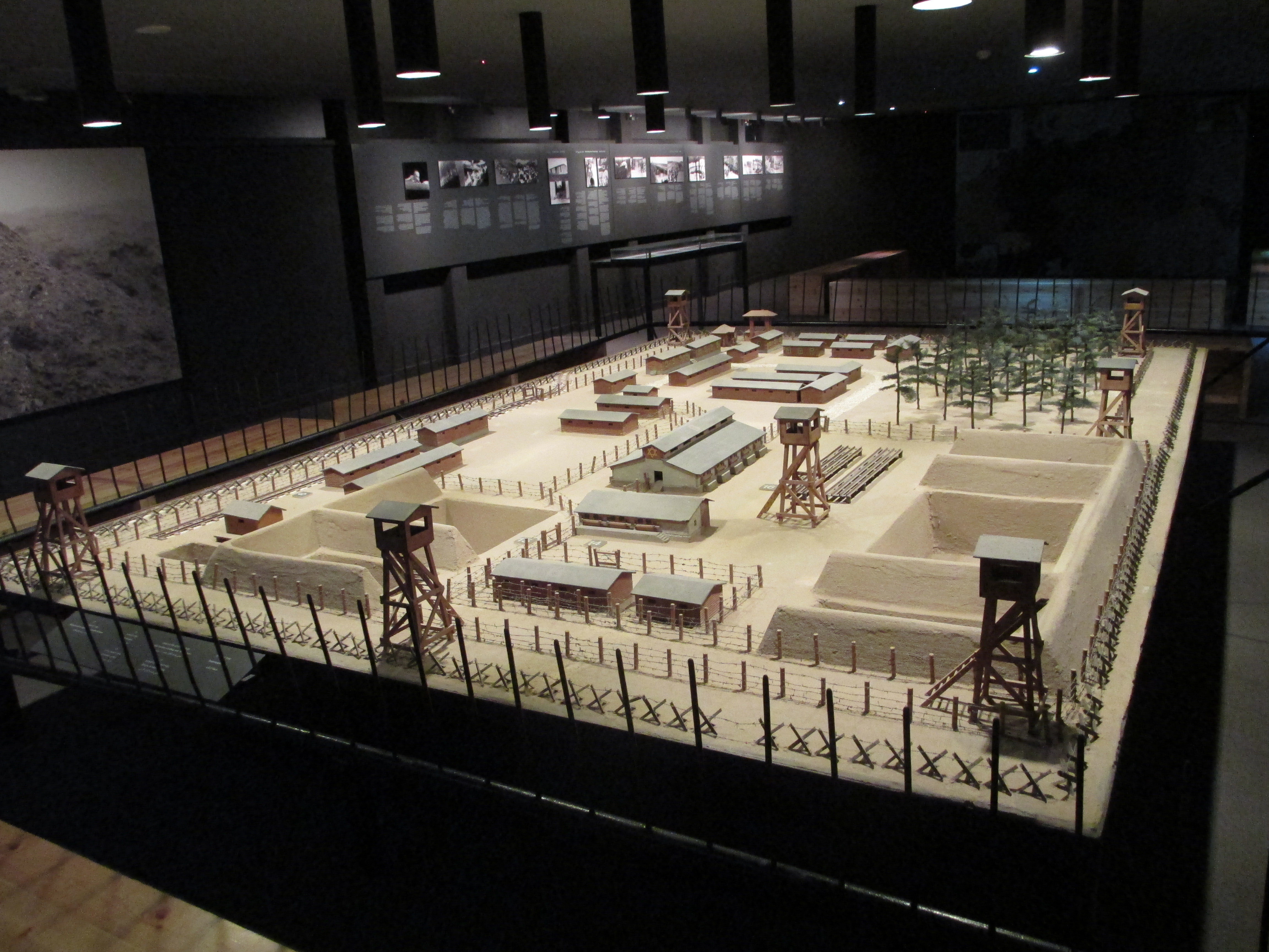 Model of Treblinka Death Camp